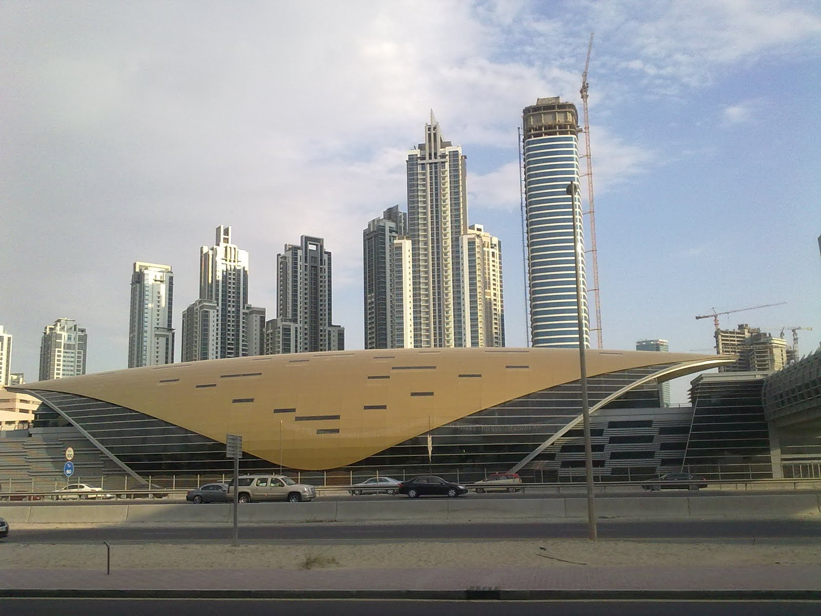 dubai metro station Type 1 on piller photo @ business bay